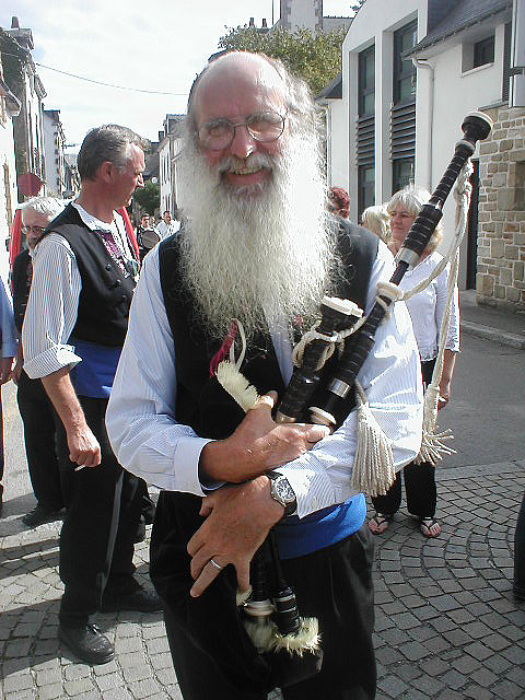 From Plougastel, the land of the strawberries.